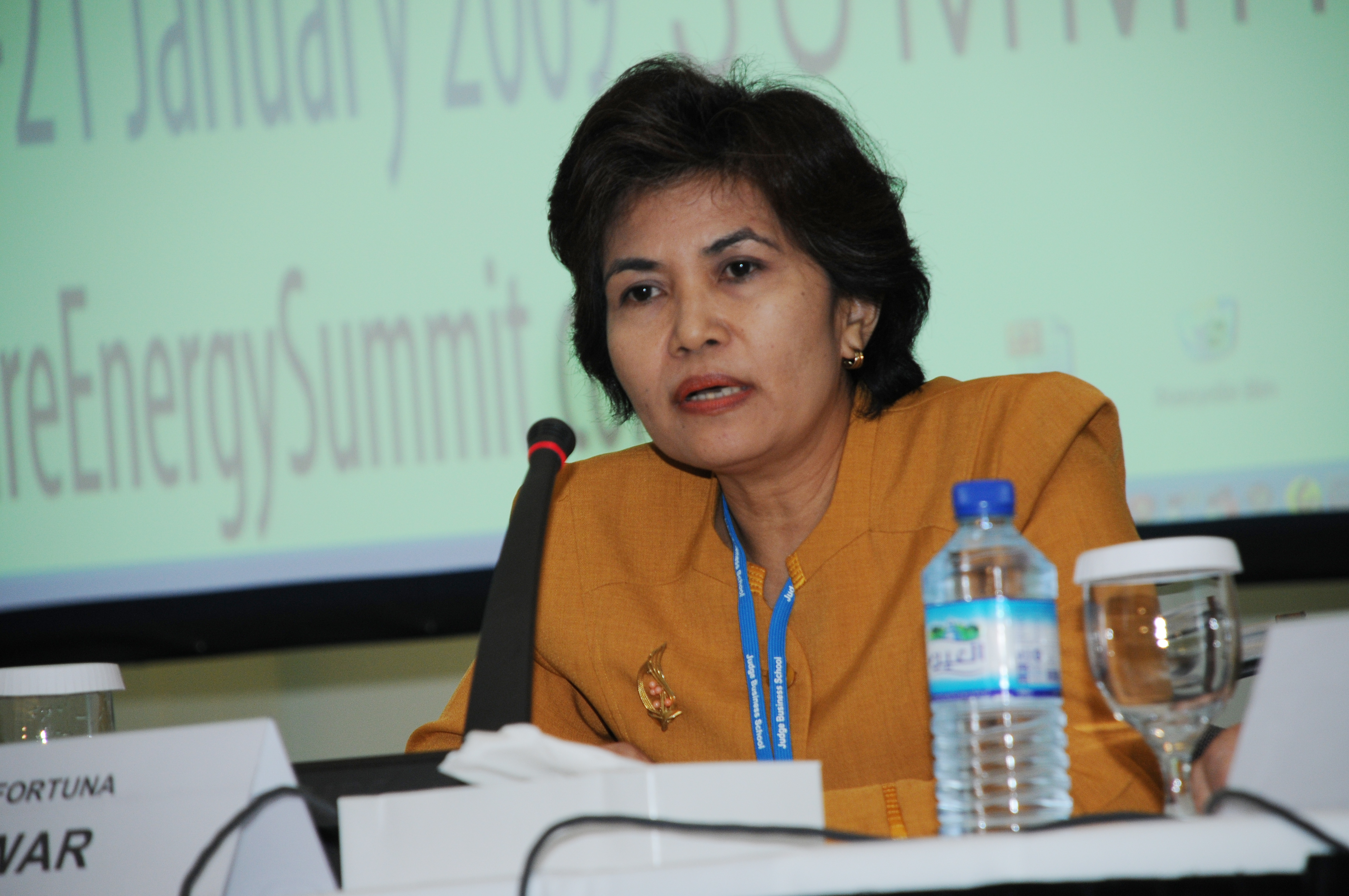 Abu Dhabi / UAE, 21 January 2009 - Dewi Fortuna Anwar, Deputy Chairman for Social Sciences and Humanities of the Indonesian Institute of Sciences responds to questions during the Agenda for the New Millennium press conference, organized in cooperation with the World Future Energy Summit. Copyright Kvasir Society ( / Photo by Joy Mathew